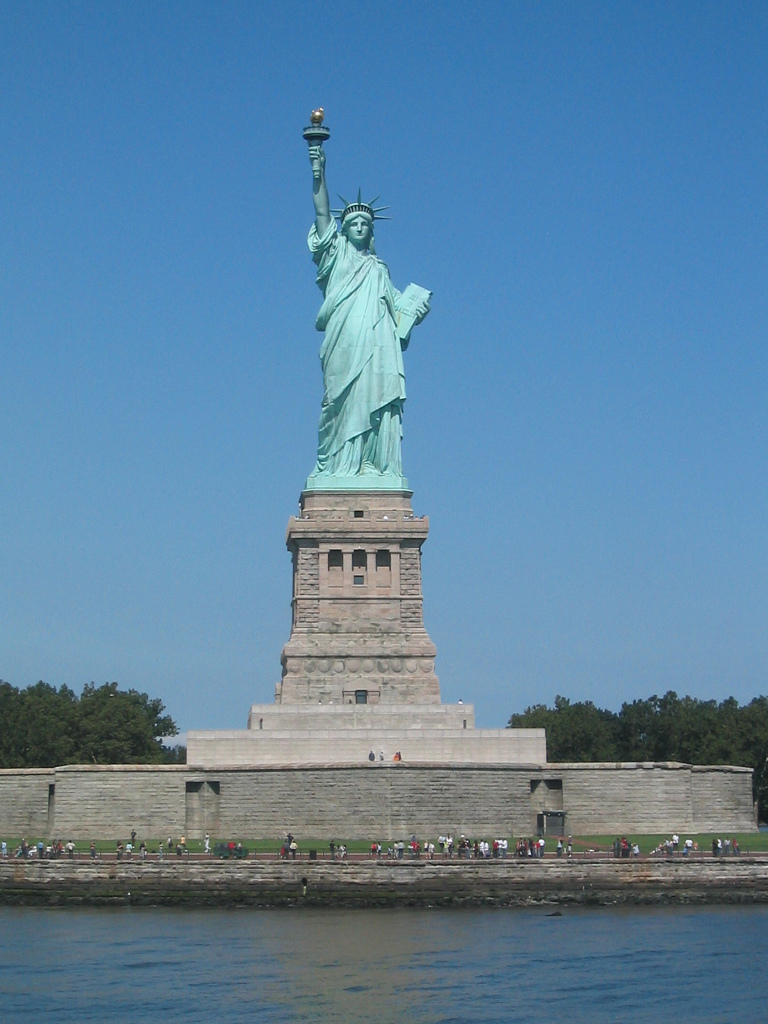 Statue of Liberty, New York City, USAuntitled